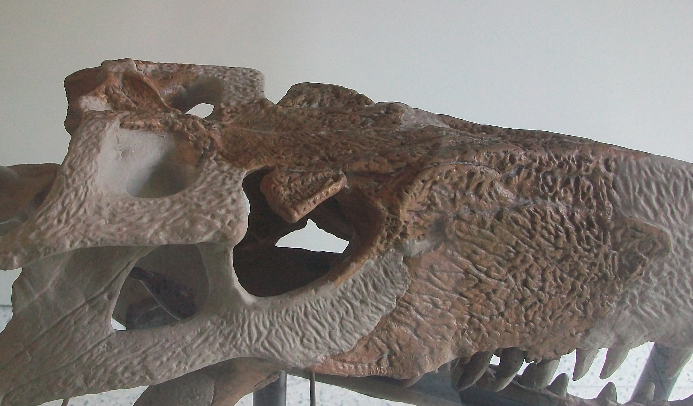 A cast of the skull of Sebecus icaeorhinus (specimen AMNH 3160) in the American Museum of Natural History showing the known material in brown.